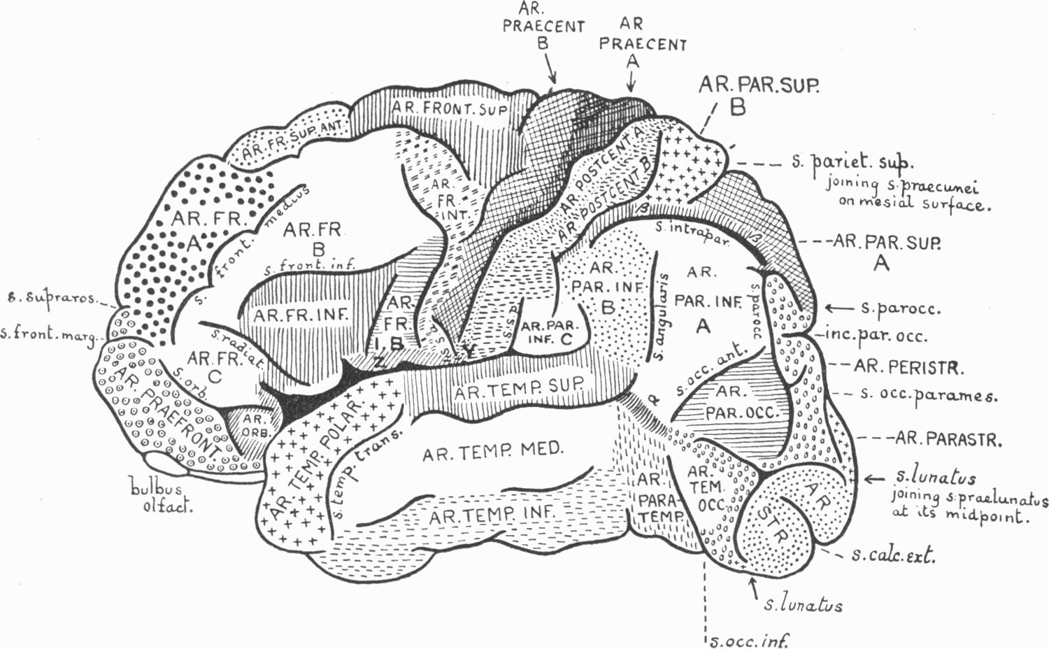 topography of brain cortex